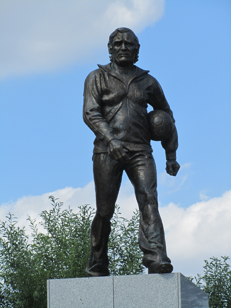 A statue of Polish football hero Kazimierz Górski outside Warsaw's National Stadium (Stadion Narodowy).